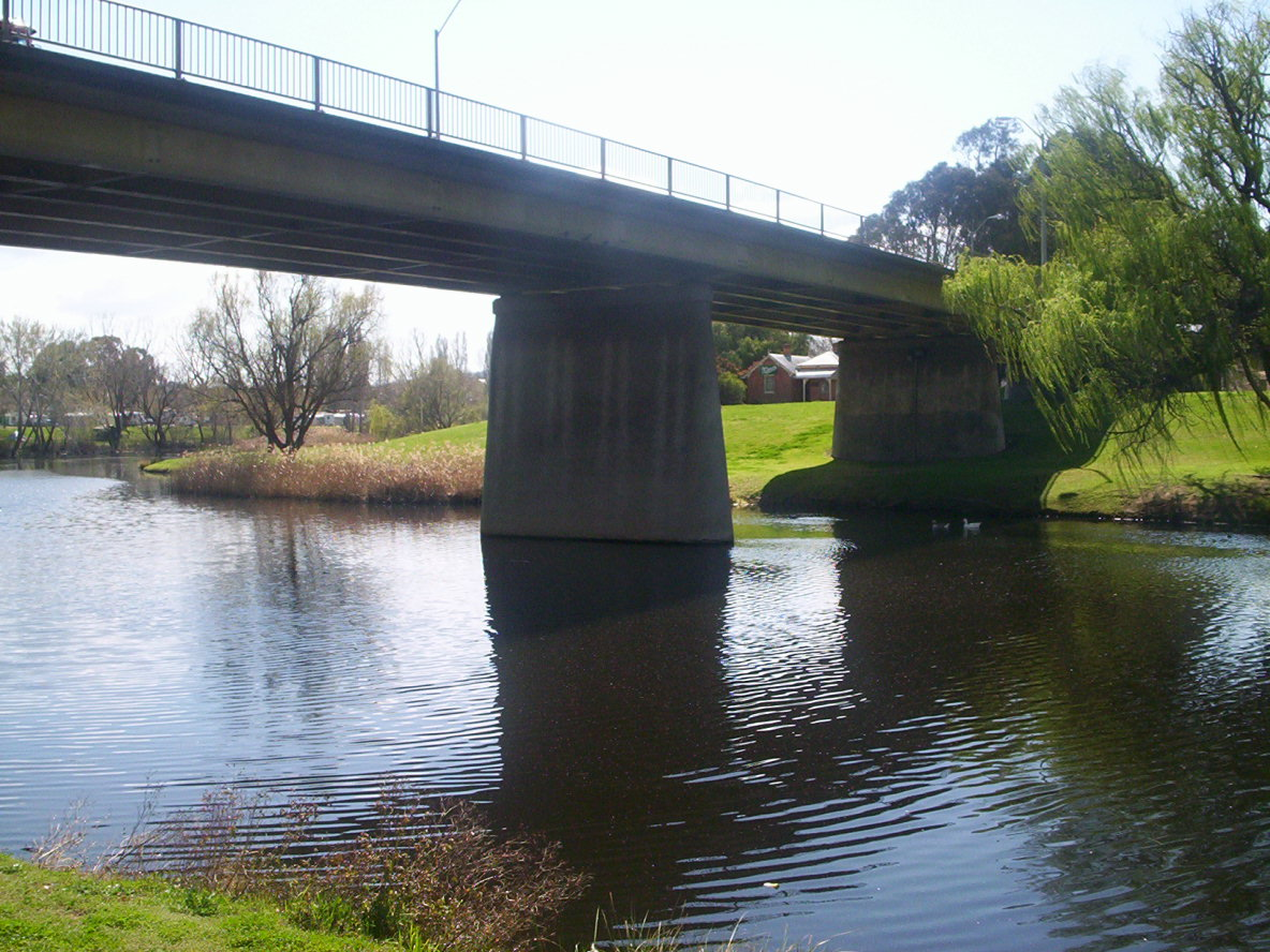 Road bridge carrying the Kings Highway over the Queanbeyan River, in Queanbeyan. The building visible between the pylons is the Queanbeyan Art gallery.